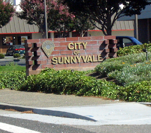 Standard marker used on certain arterial roads to greet visitors to the city of Sunnyvale.